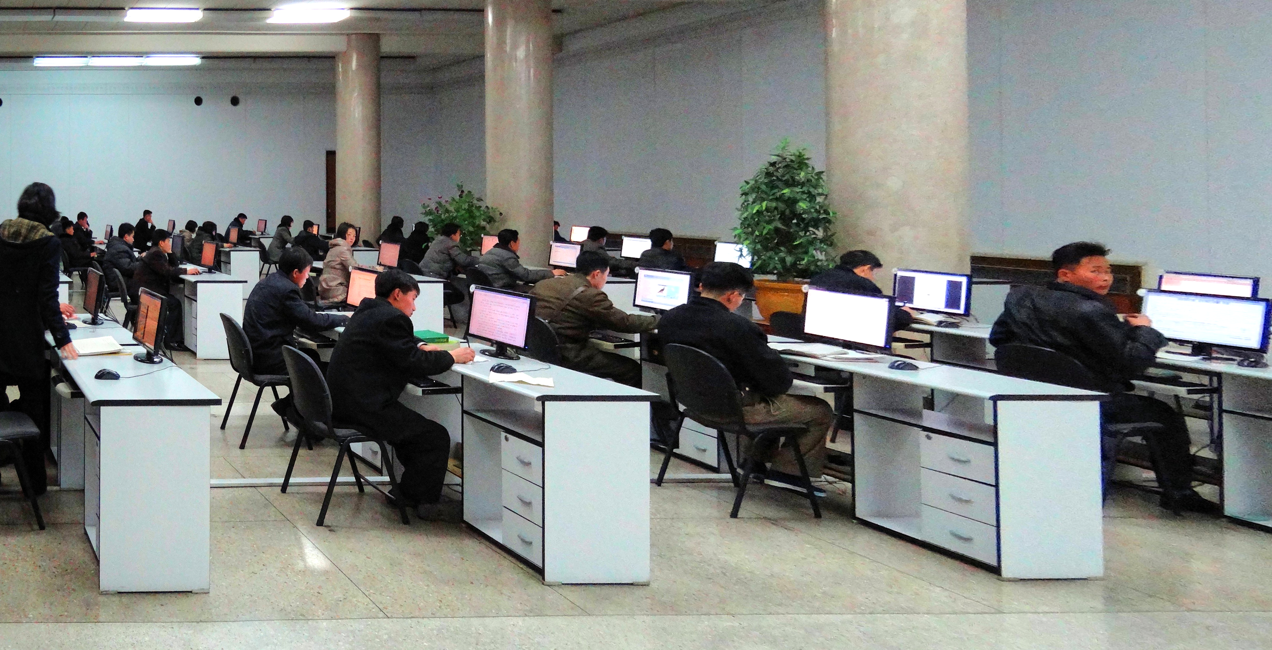 A computer room at the Grand People's Study House in Pyongyang, North Korea. The computers give access to a North Korean intranet, not the Internet. As of March 2014, the computers are set up with Windows XP and Internet Explorer 6.0.